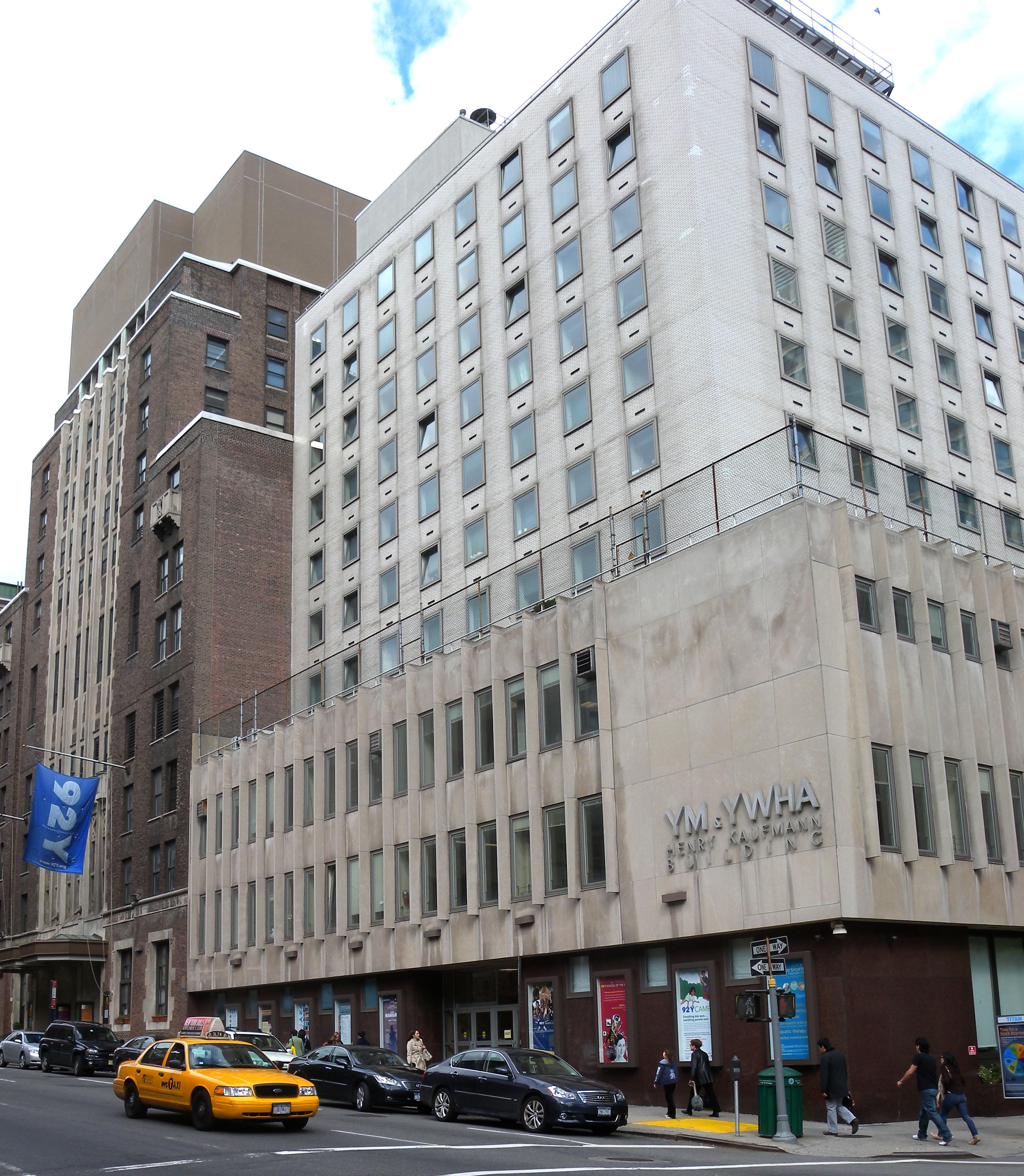 Looking east across Lex and 91st at Kaufmann building of en:92nd Street Y.